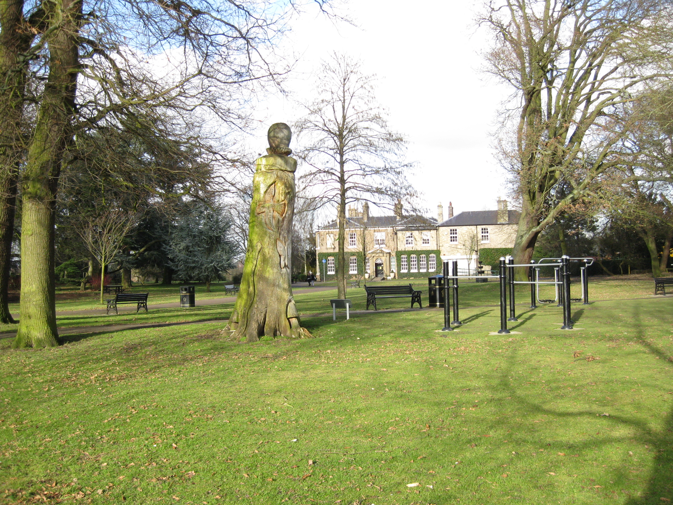 Evington Park, Leicester. Near centre is the "Tree of Life" or totem pole carved by William Gardner of Leicester City Council. In the foreground is some outdoor exercise equipment. In the distance is Evington House (1836)